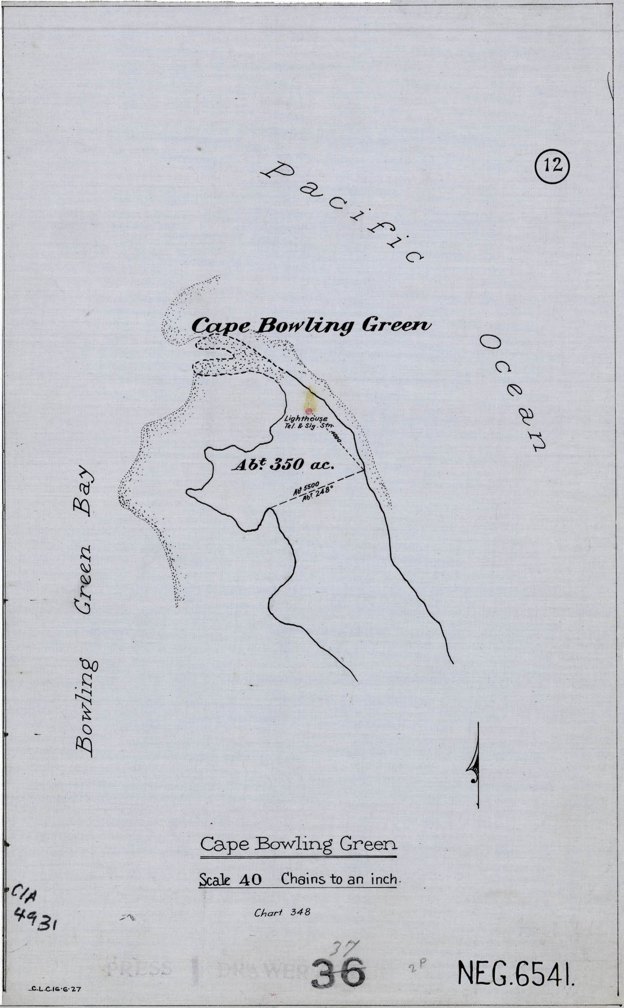 Cape Bowling Green - Plan, 1927